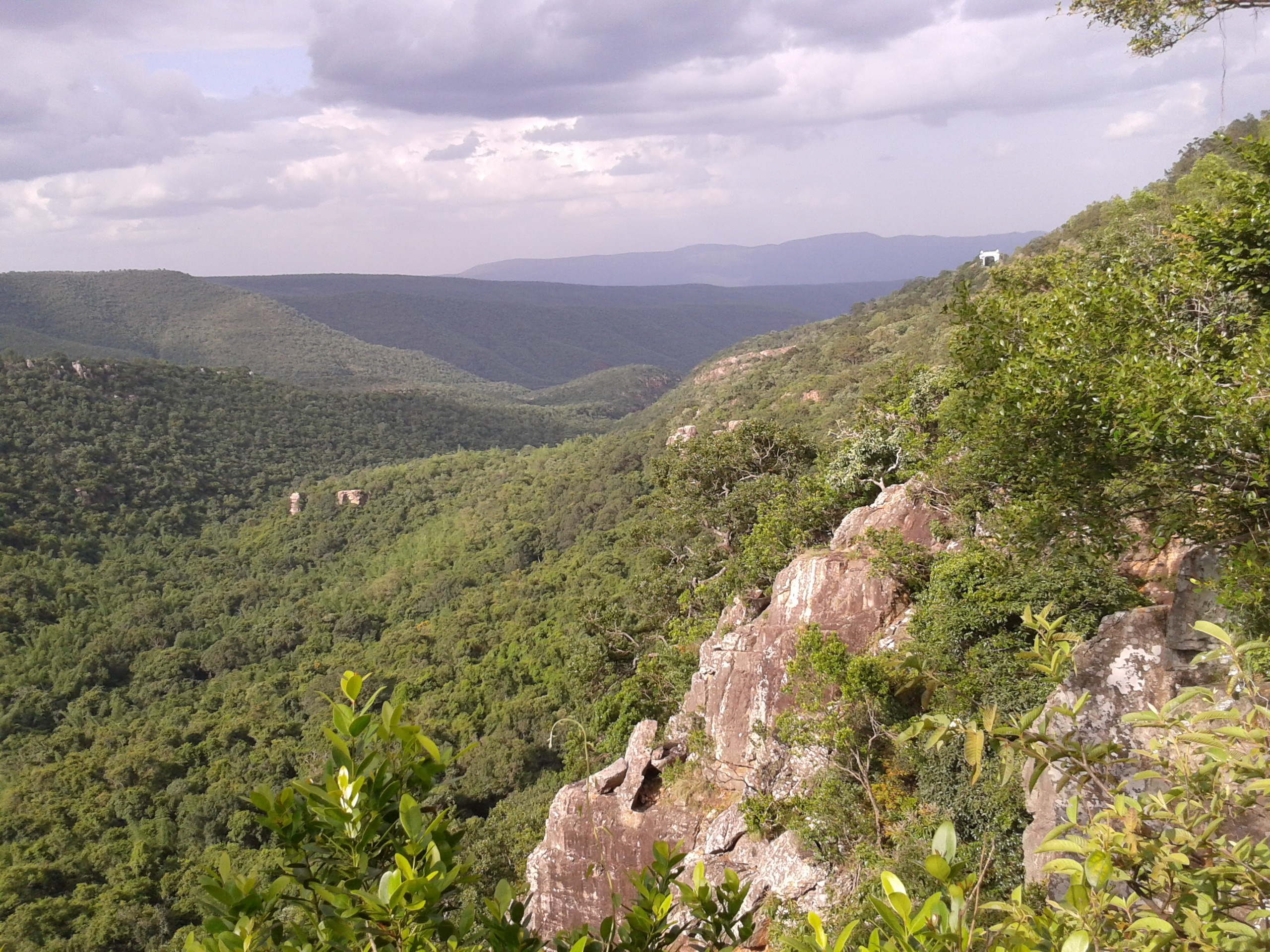 View of Sri Venkateswara National Park on Tirumala Hills, Andhra Pradesh